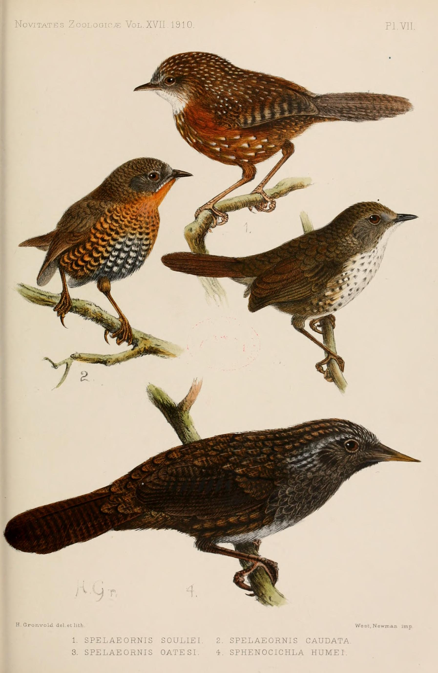 Ernst Hartert, 1910 Miscellania Ornithologica Part vi Novitates Zoologicae Plate VII Bar-winged Wren-Babbler (Spelaeornis troglodytoides souliei) Oustalet, 1898 Chin Hills Wren-Babbler Spelaeornis oatesi (Rippon, 1904) Rufous-throated Wren-Babbler Spelaeornis caudatus (Blyth, 1845) Sikkim Wedge-billed Babbler Sphenocichla humei (Mandelli, 1873)